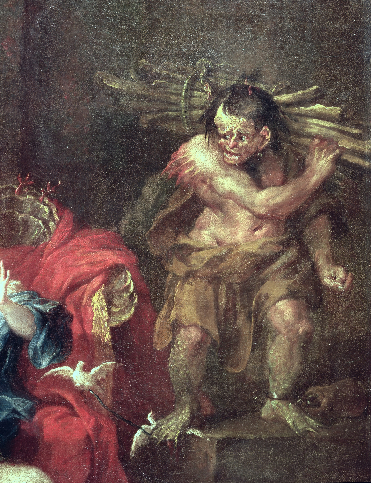 "The Tempest", depicting Caliban with a load of wood (detail).